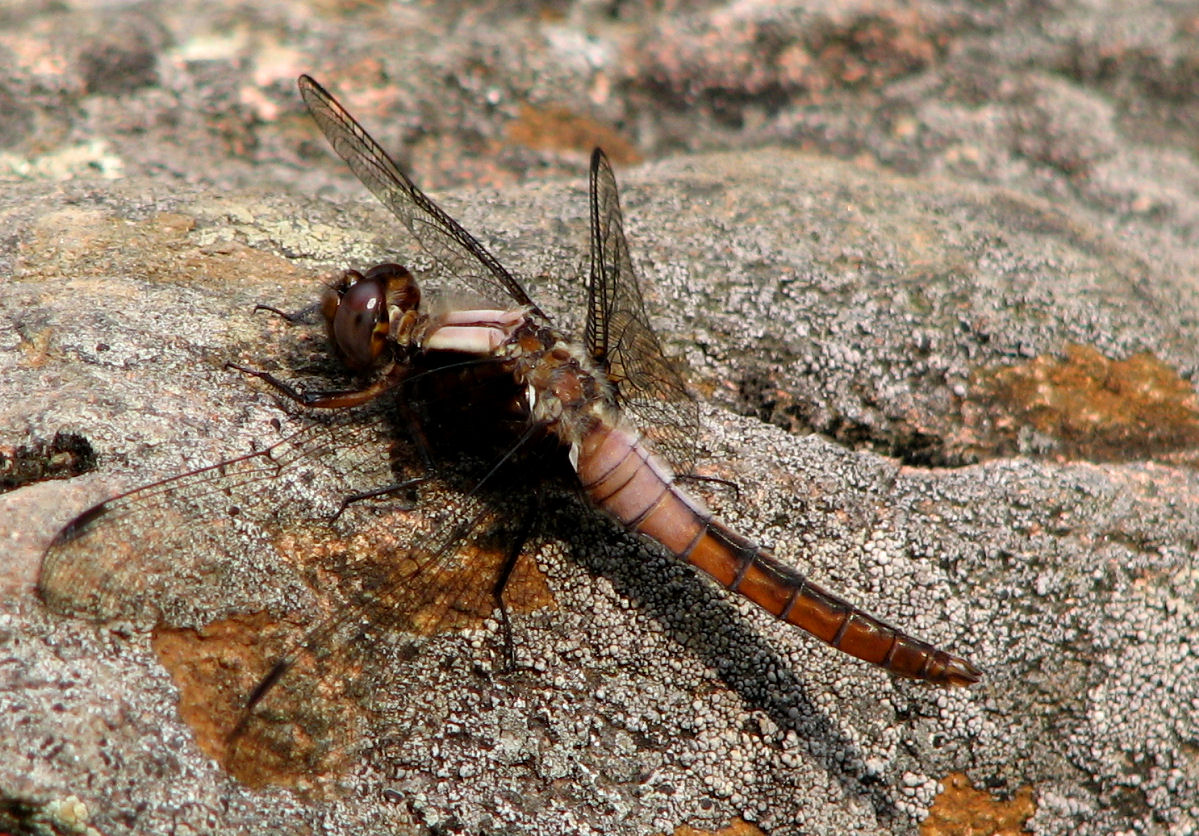 Chalk-fronted Corporal (Ladona julia), female juvenile, side-view, Magnetawan River